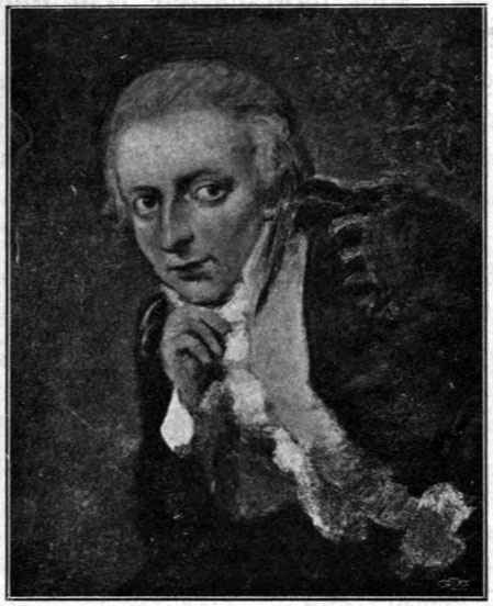 Carl Michael Bellman, Swedish poet. From a painting by Elias Martin. Picture published in Volume 1 (of 8) of Nils Personne’s history of Swedish theatre.